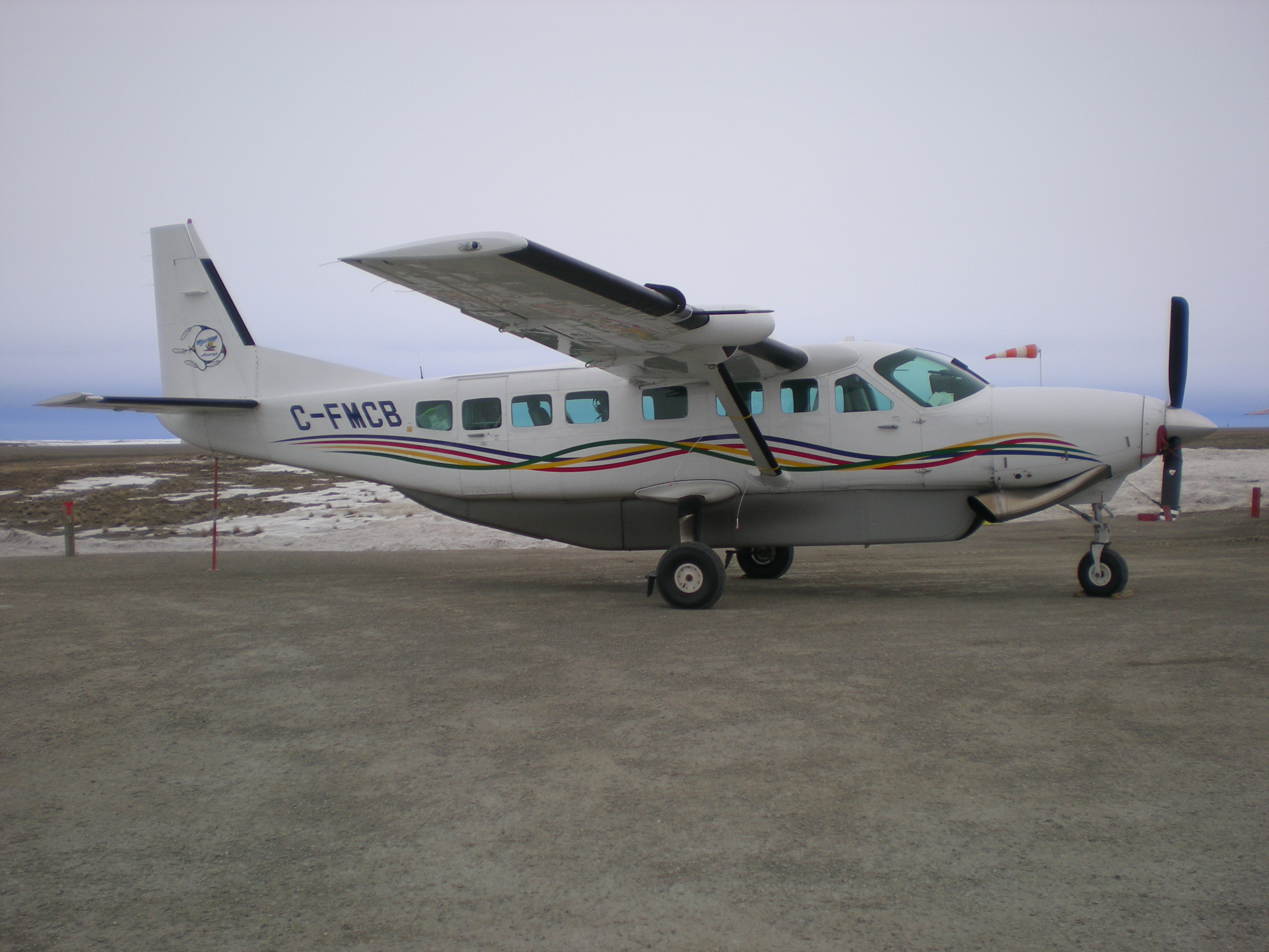 Missinippi Airways Cessna 208 C-FMCB at Cambridge Bay Airport. This aircraft crashed on July 4, 2011.